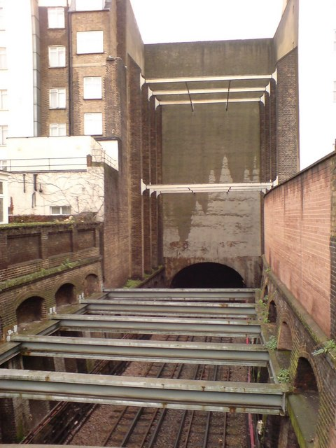 Circle Line as seen from Porchester Terrace